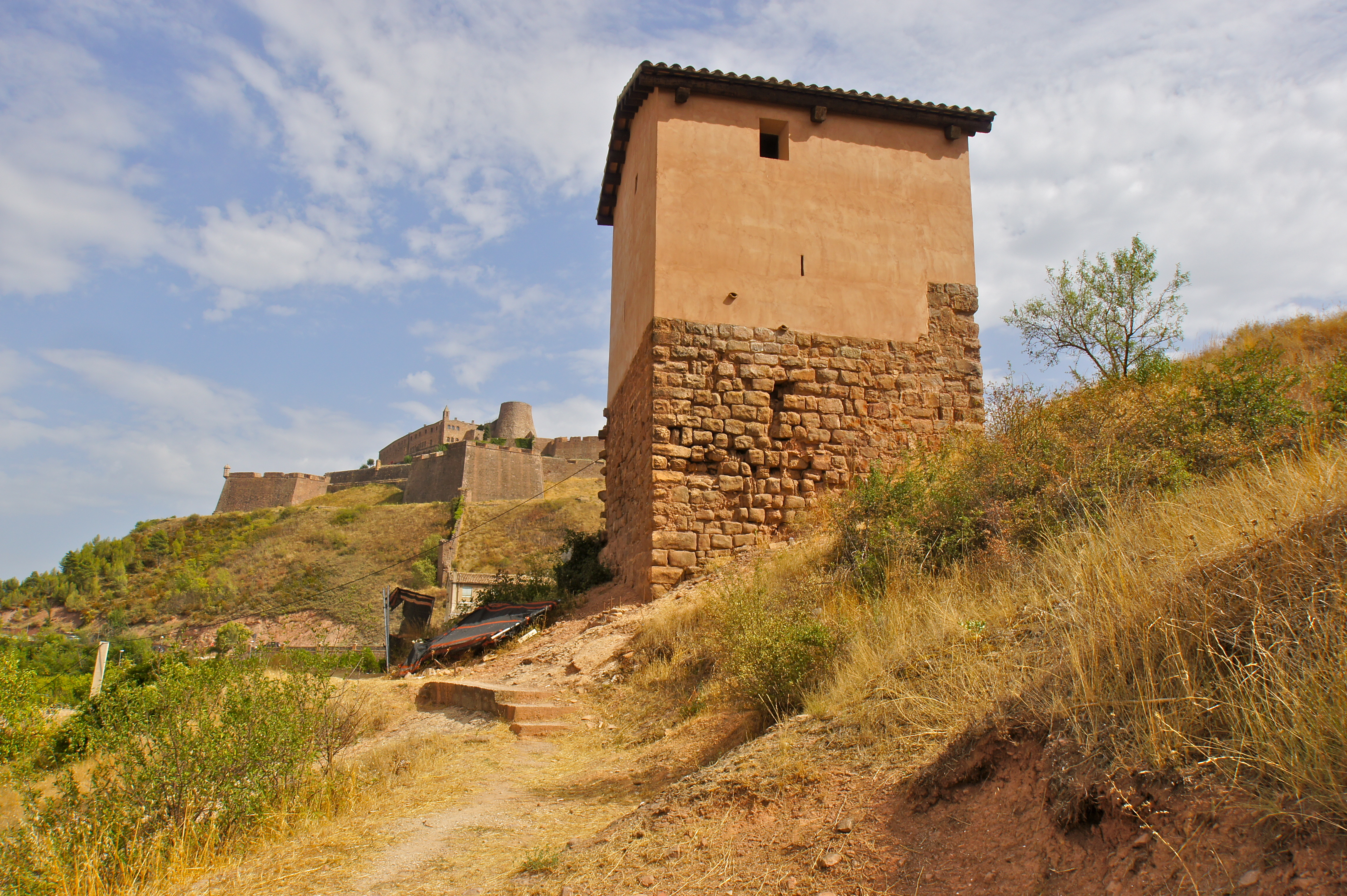 Cardona, Catalonia: The Executioner's house Torre del Botxí and the Castle of Cardona in the back ground